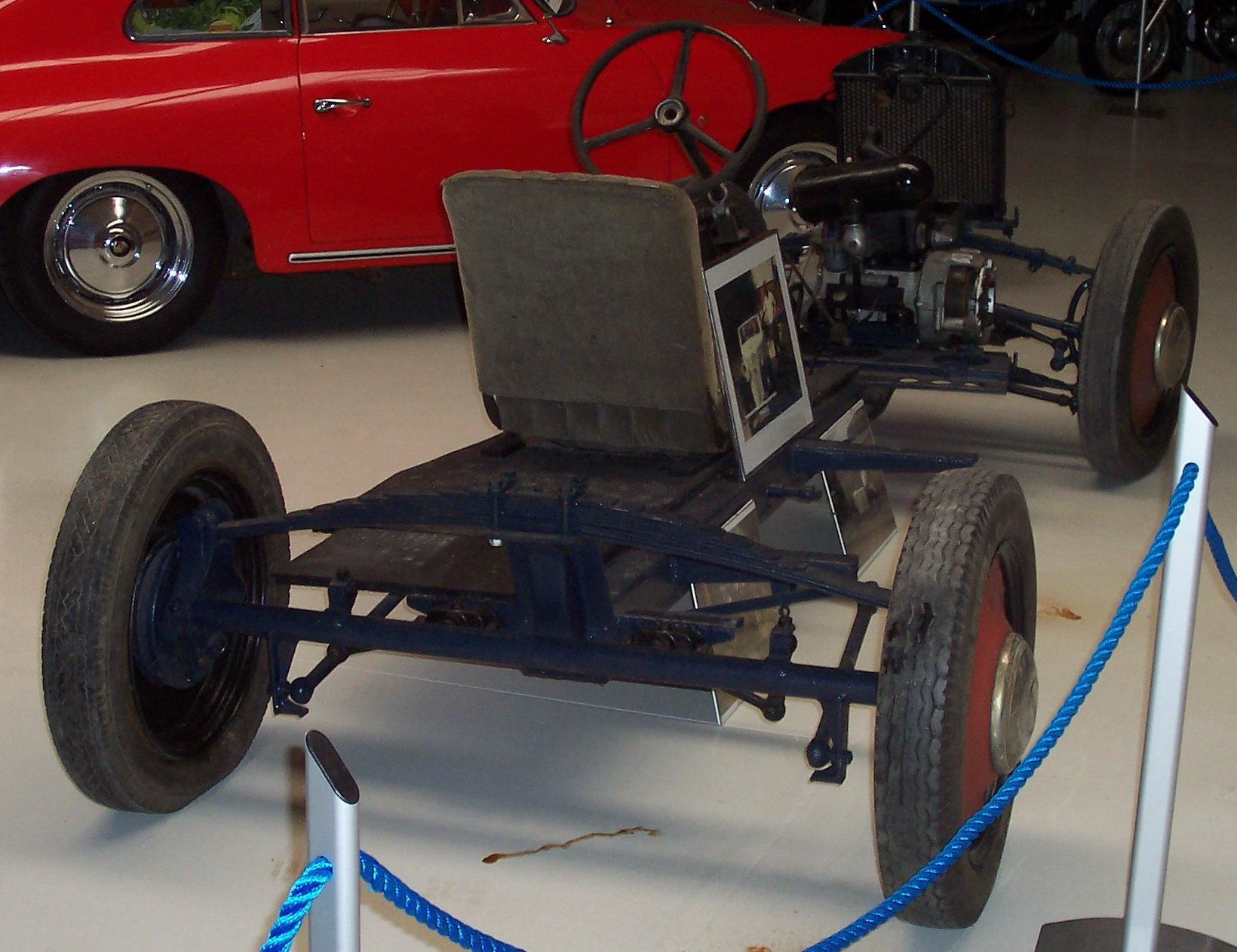 DKW F7 chassis, with transversely mounted two stroke engine and front wheel drive. Location: Vestsjaellands Bilmuseum, Hoeng, Denmark